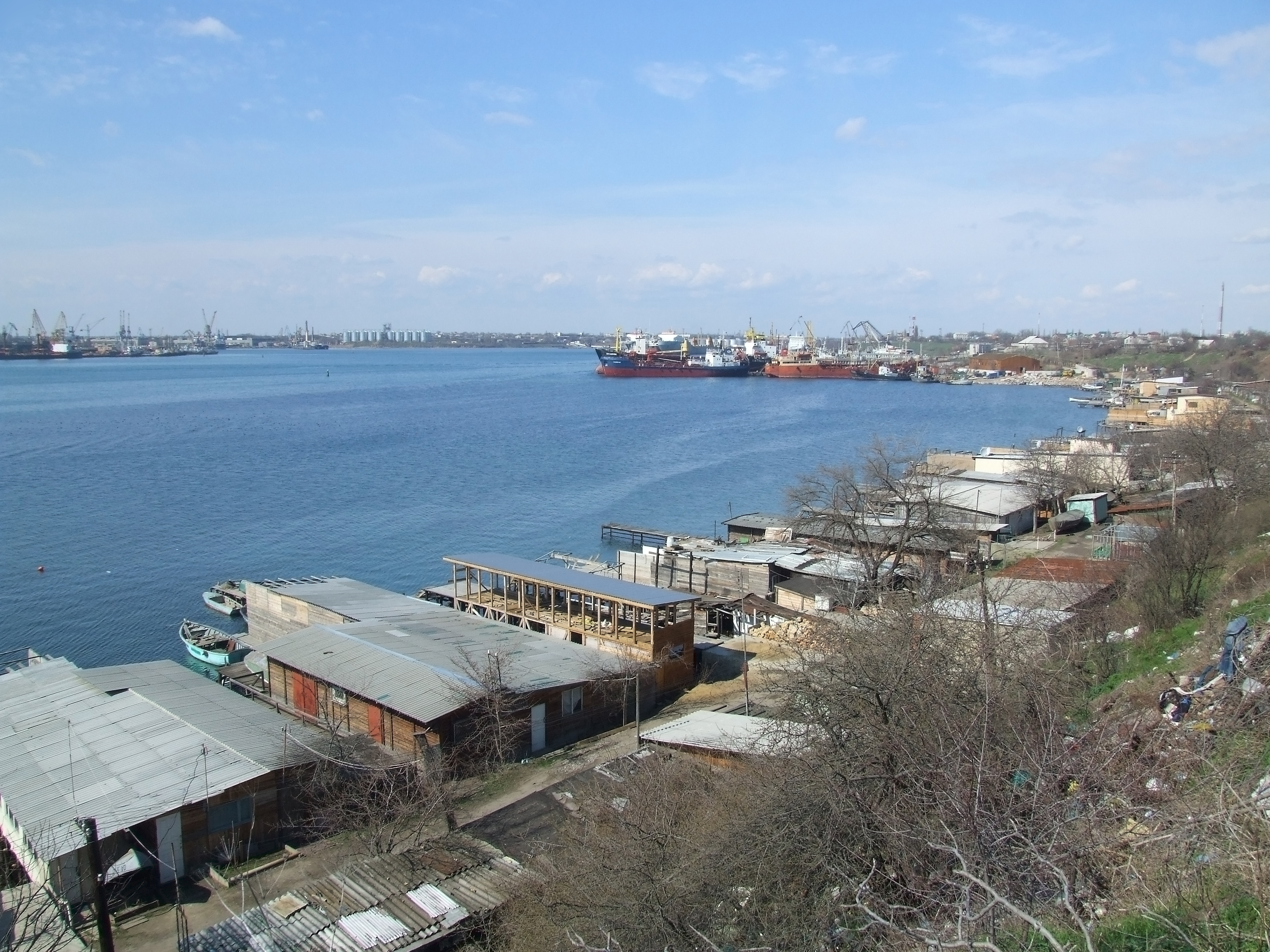 Houses of fishermen in Burlacha Balka, Odessa Oblast, Ukraine